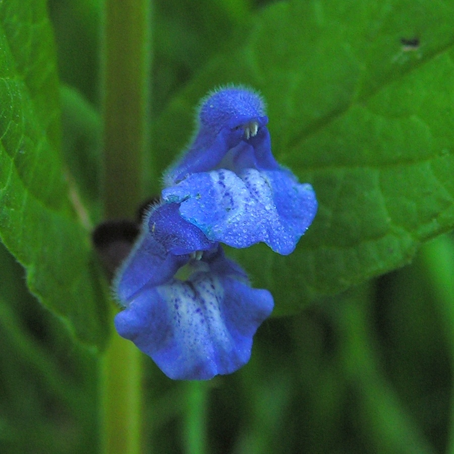 Flowers of Common skullcap. Moscow region, Russia.